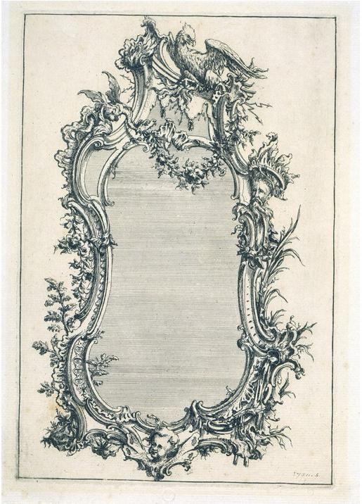 Design, 1744, Matthias Lock V&A Museum no. 27811:6 Techniques - Etching, ink on paper Place - London, England Dimensions - Height 26.2 cm (paper), Width 18.7 cm (paper) Object Type - This print is an etching, which uses the action of acid to create lines on a metal printing plate. This sheet is a printed plate from a pattern book entitled Six Sconces, published by Matthias Lock in 1744. This pattern book consists of a set of six plates of designs for wall-mirrors, some with sconces (brackets for holding candles). It was the first Rococo carver's pattern book to be published in Britain. Subject Depicted - The print shows a design for a pier glass, which is a tall narrow mirror designed to be attached to the wall between windows. The extreme asymmetry of the design is deceptive, as the print was probably intended to show two designs, each of which could be seen in its entirety by placing a small frame-less mirror down the centre. The eagle at the top and the winged head at the bottom of the mirror are copied from French Rococo prints. People - Matthias Lock (active from about 1710 to 1765) was a furniture designer and carver who worked in the Rococo style. He was also one of a number of designers to publish pattern books. Like this book, they were essentially collections of illustrations, which ensured the rapid spread of the style.